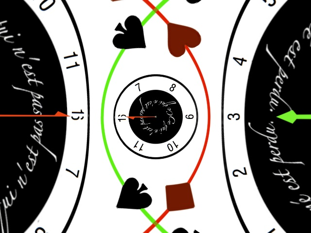 This picture represents the result of a conformal transformation of the complex plane tiled by a clock. Here: the square function z ↦ z 2 {\displaystyle z\mapsto z^{2 restricted to negative real part, hence injective.